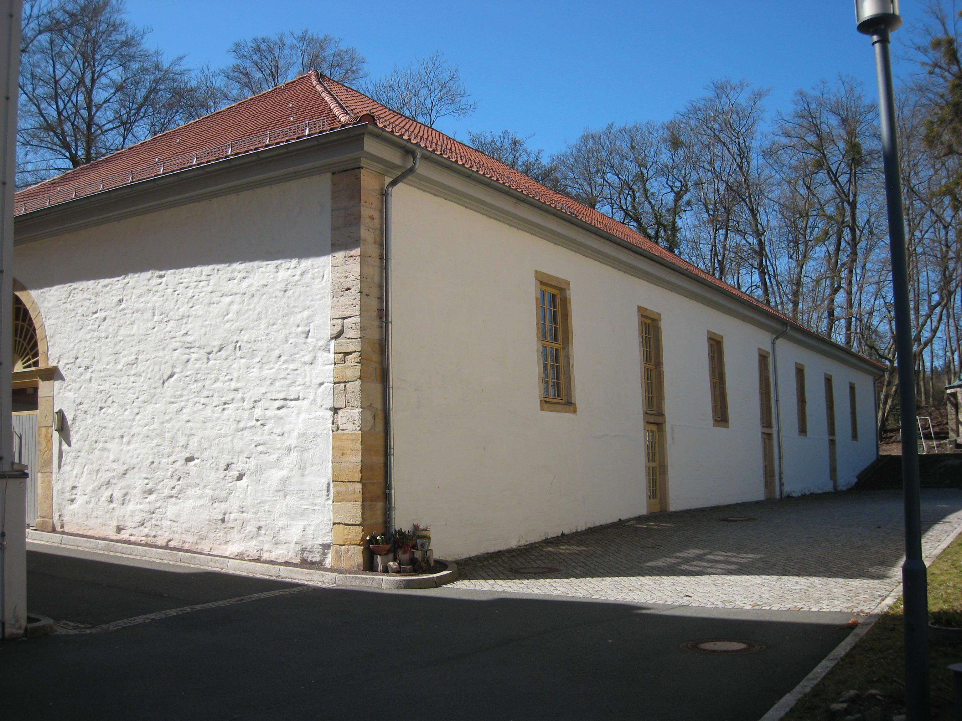 Salzmann school Schnepfenthal, former riding hall